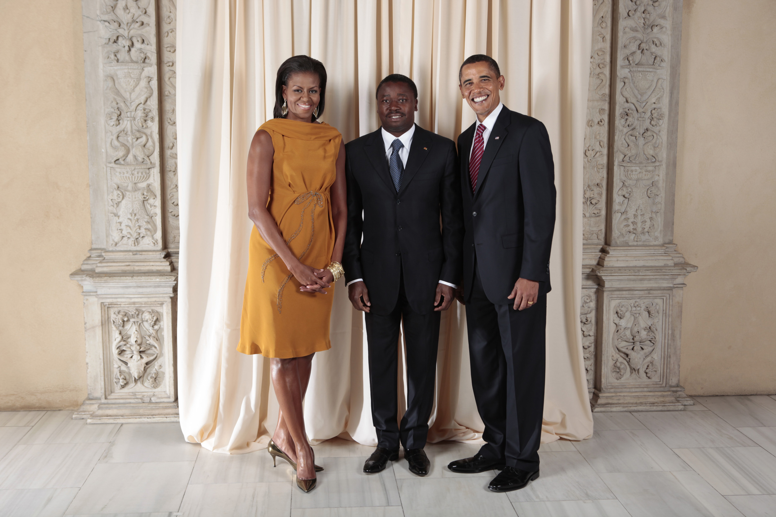 President Barack Obama and First Lady Michelle Obama pose for a photo during a reception at the Metropolitan Museum in New York with Faure Gnassingbe, President of the Togolese Republic.